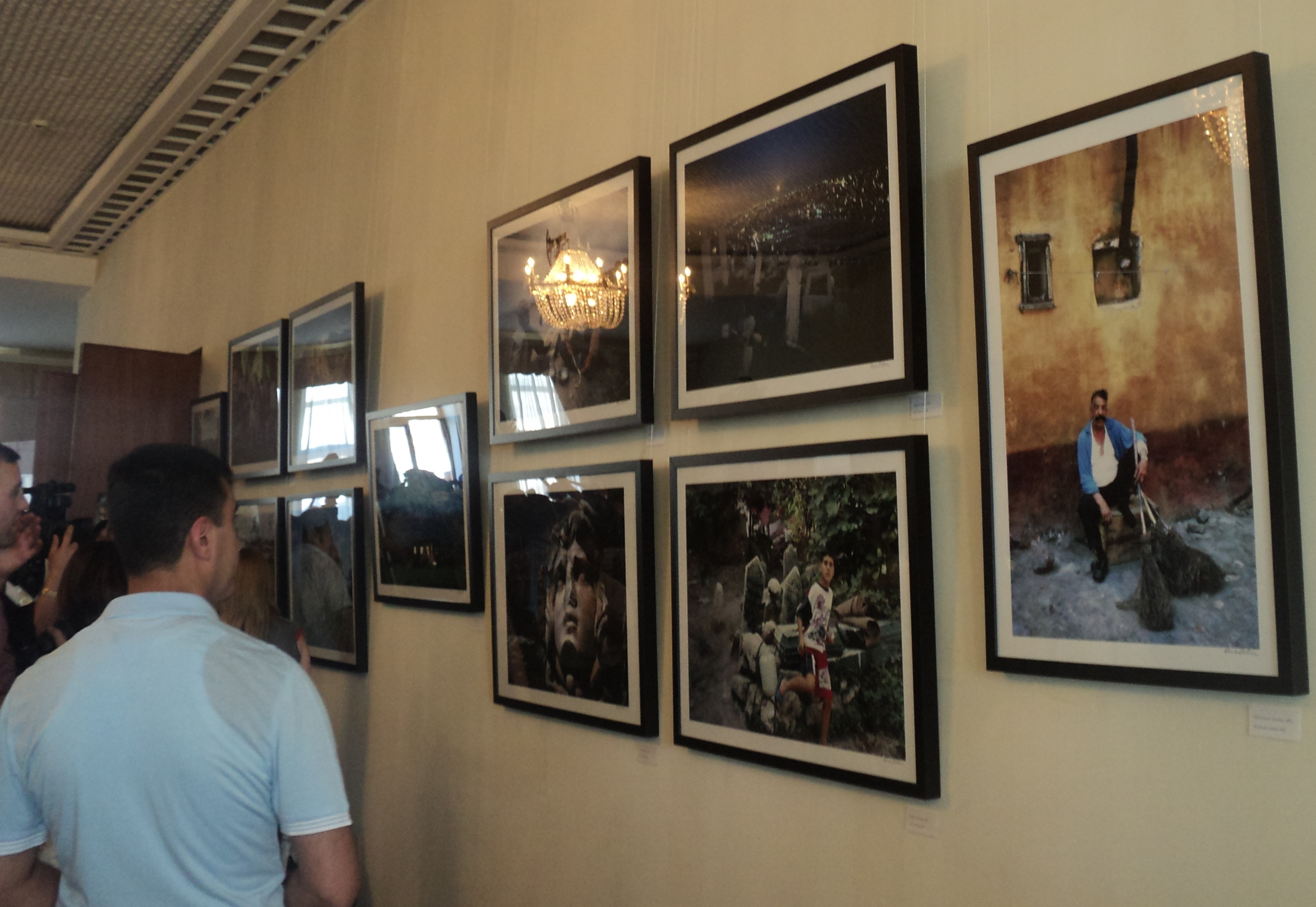 Ara Güler's exhibition under the slogan "Hello" at National Gallery of Armenia